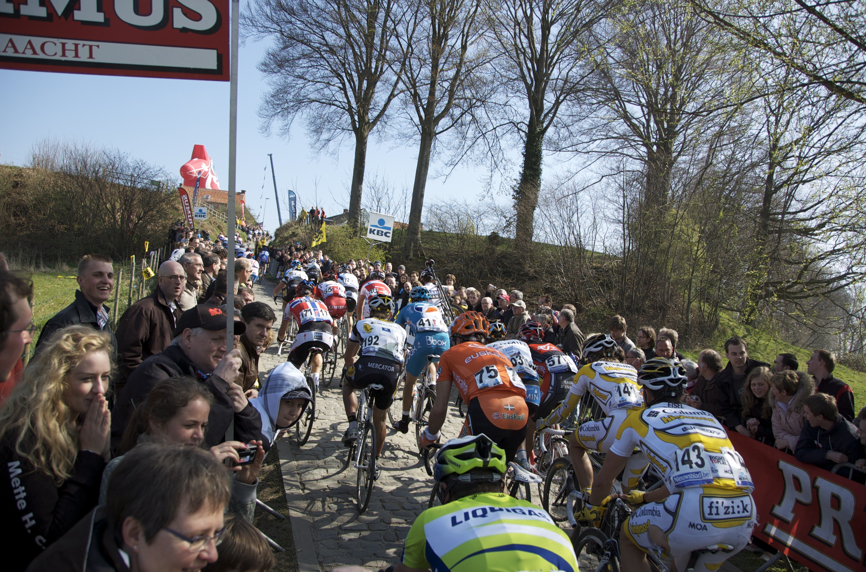 Koppenberg hill during the 2009 Ronde van Vlaanderen (Tour of Flanders) Classics road cycling race.